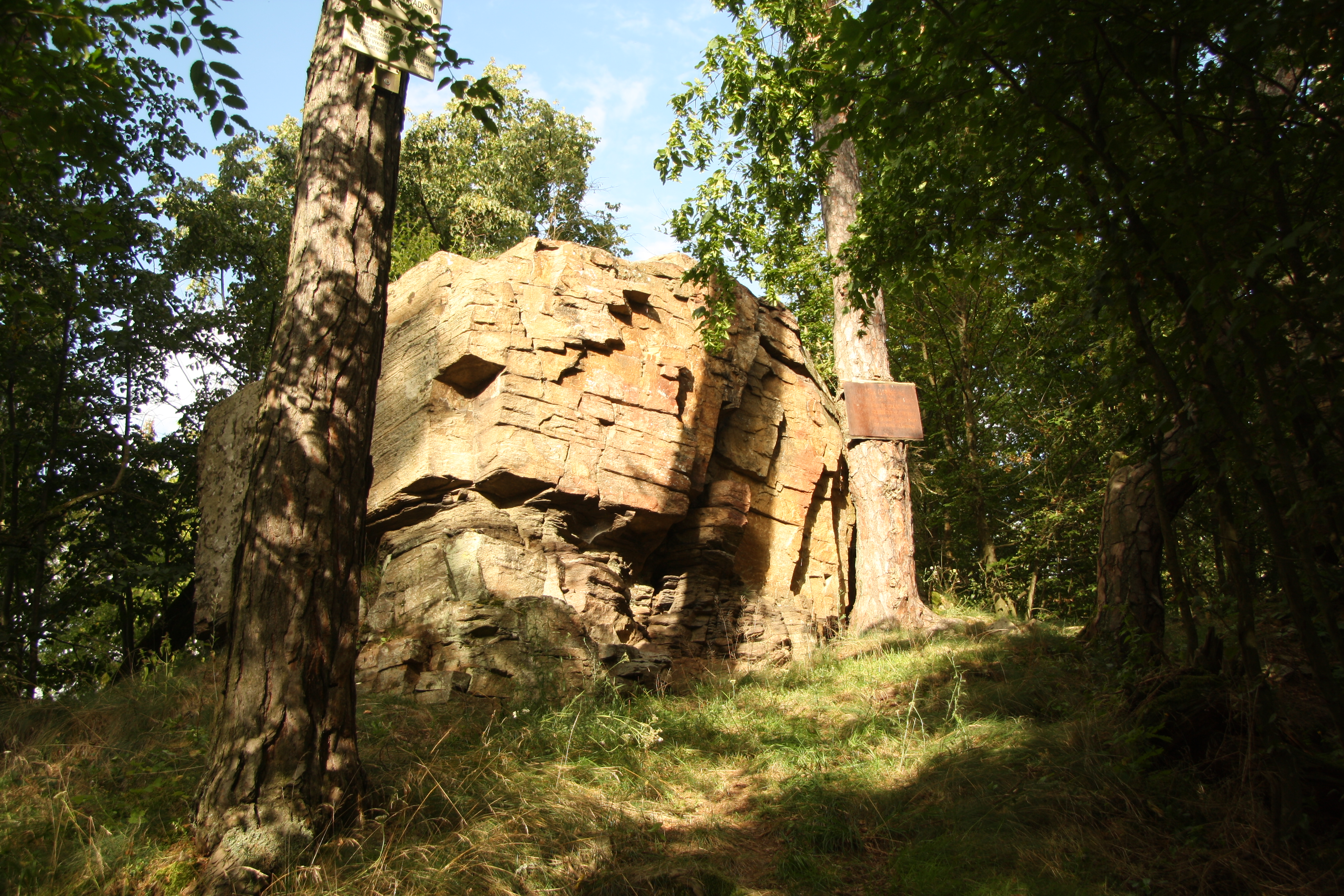 Main part of Palliardi archeological site near Koberův mill near Vysočany, Znojmo District.